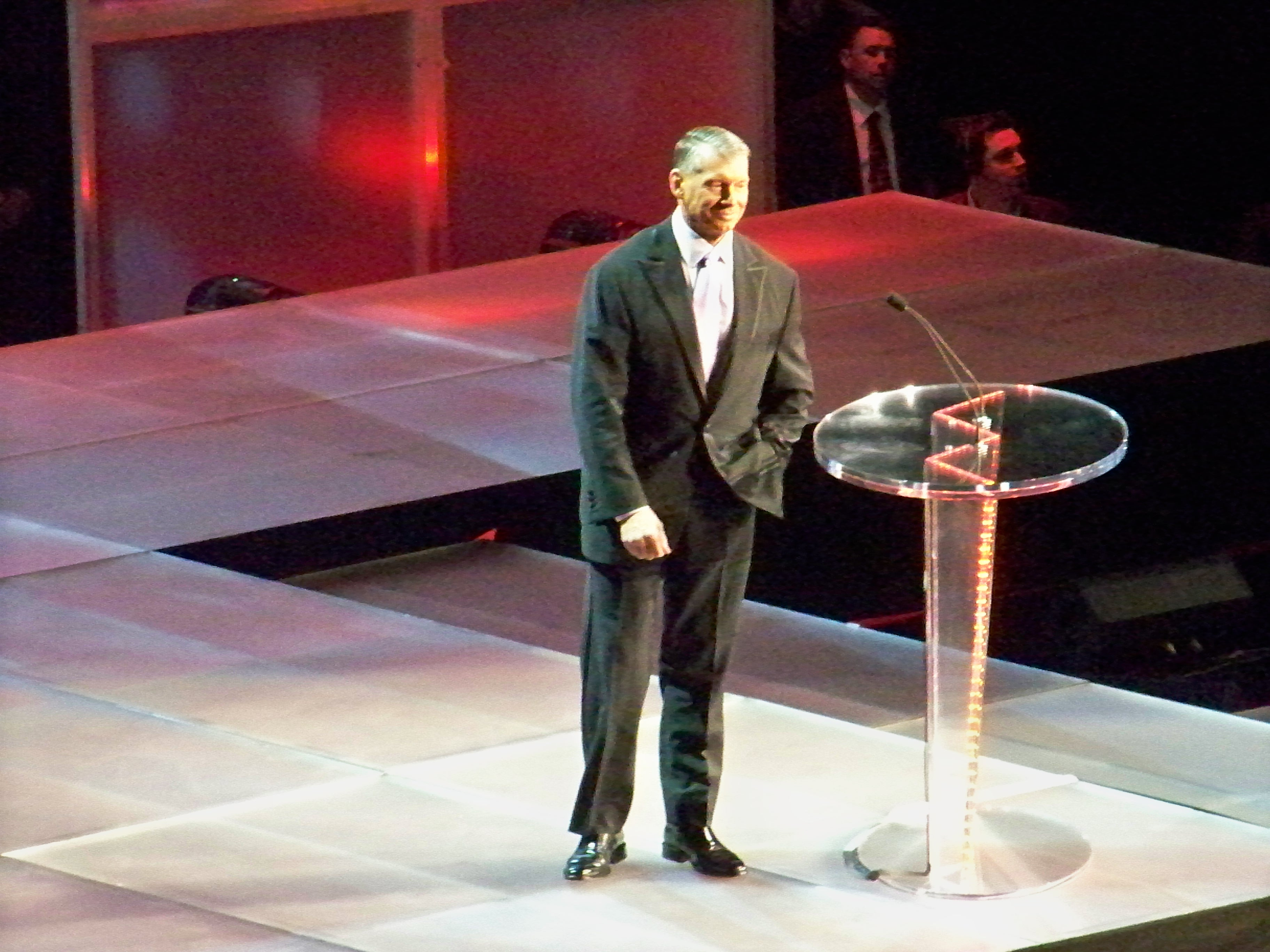 McMahon, at the Hall of Fame, introducing Stone Cold Steve Austin. ಕನ್ನಡ: ವಿನ್ಸ್ ಮ್ಯಾಕ್‌ಮೋಹನ್,Titan Sports,Inc.ಸ್ಥಾಪಕ ಮತ್ತು ವರ್ಲ್ಡ್ ವ್ರೆಸ್ಲಿಂಗ್ ಎಂಟರ್ಟೈನ್‌ಮೆಂಟ್‌ನ ಹಾಲಿ ಬಹುಮತದ ಮಾಲೀಕ.